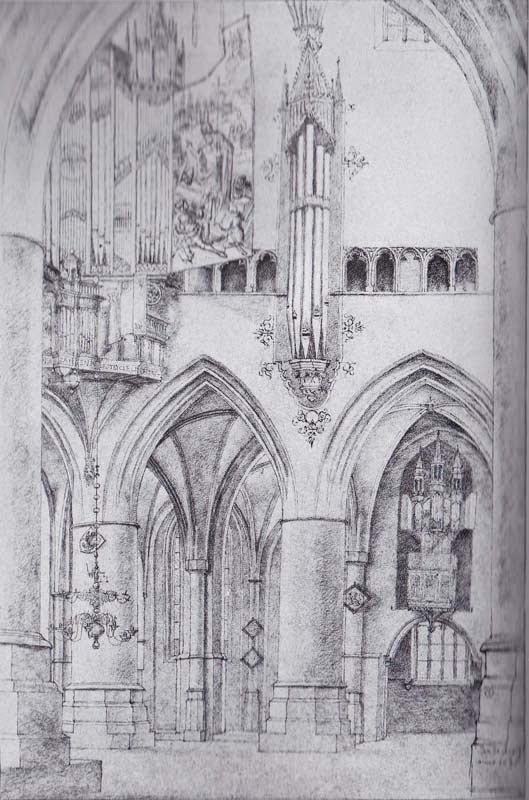 St. Bavo interior, study